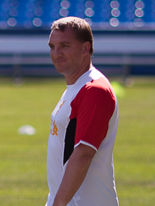 Brendan Rodgers during Liverpool training session in Toronto, 21-07-2012.